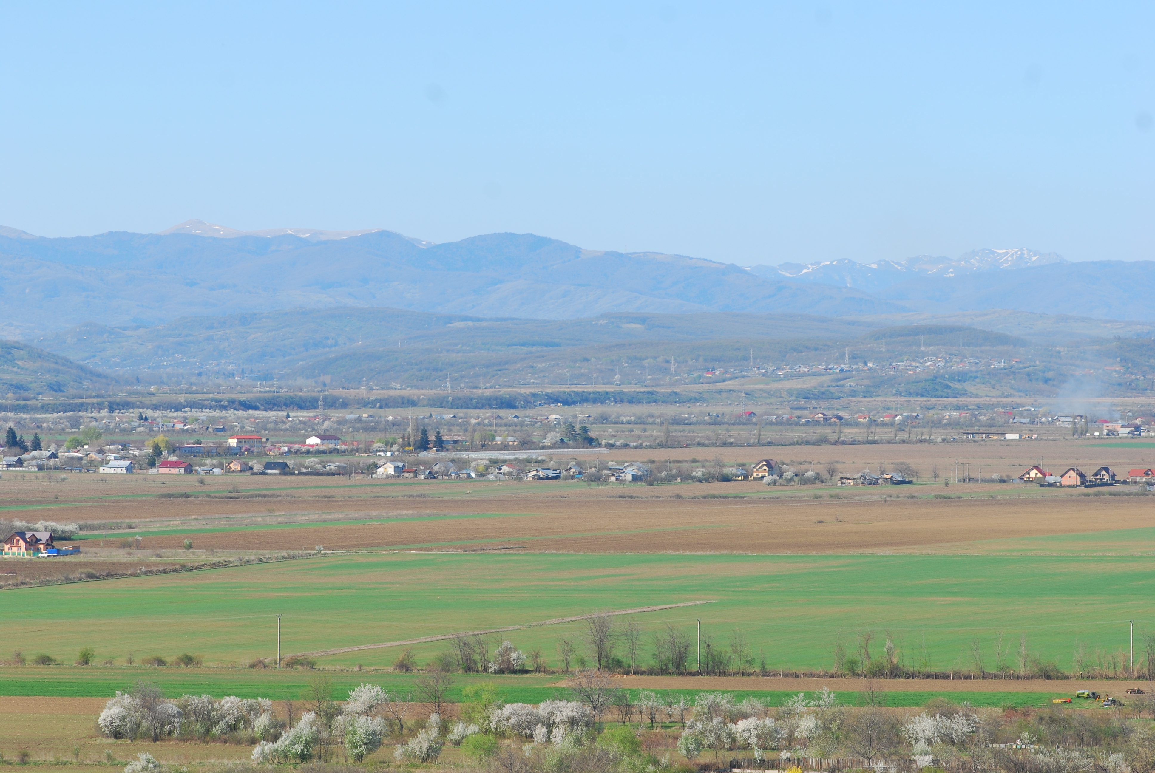 Panorama of the village of Satu Nou, Lipănești commune, Prahova County, Romania